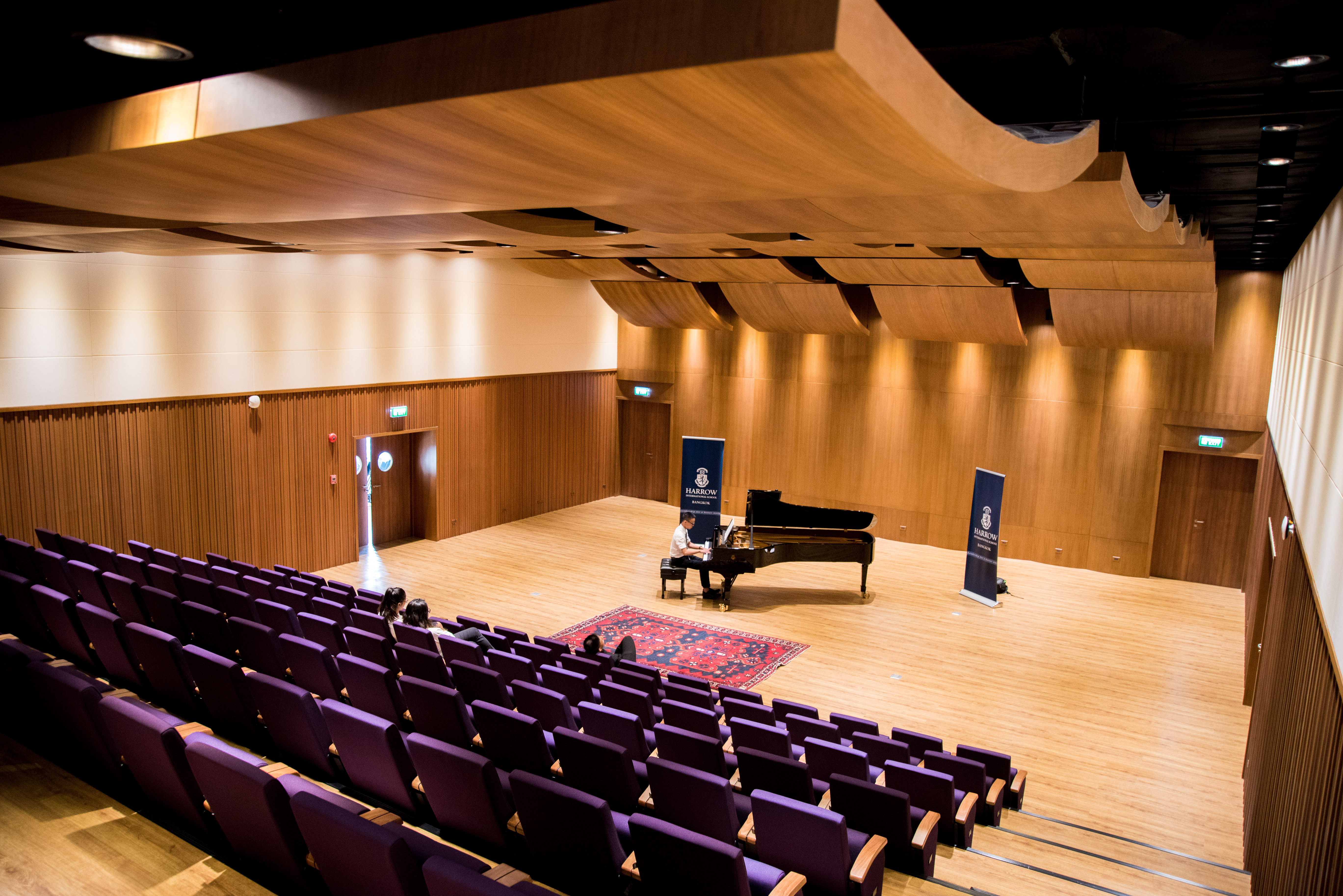 The Steinway Hall performance hall. Part of the Creative and Performing Arts Centre.